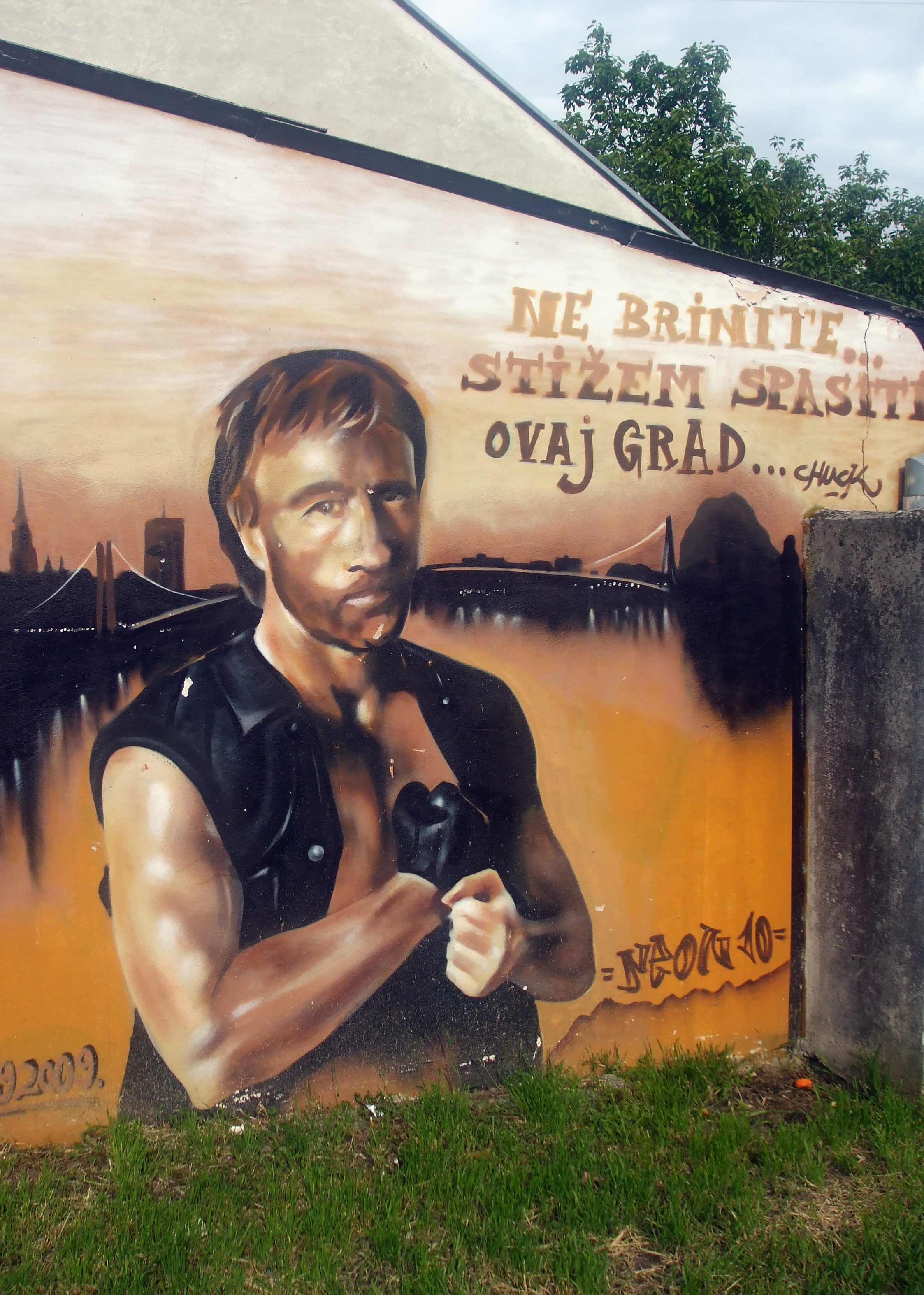 Chuck Norris graffiti in Osijek, Croatia. "DON'T WORRY... I'M COMING TO RESCUE THIS CITY... CHUCK"